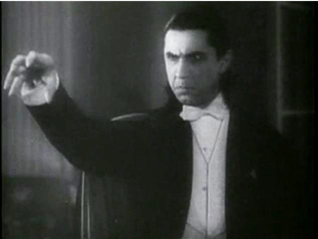 A screenshot from Dracula